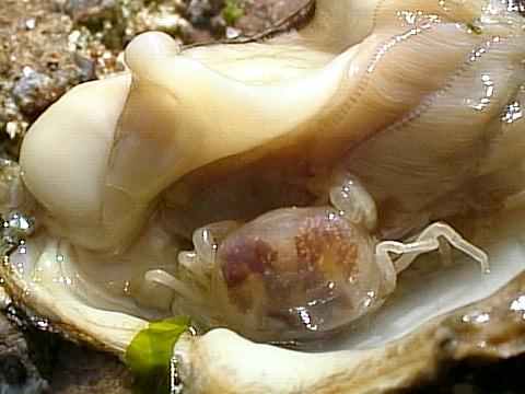 Pinnotheres sp.